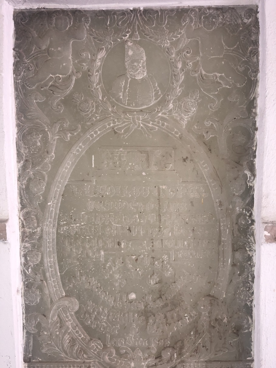 Tehran's St. George Church